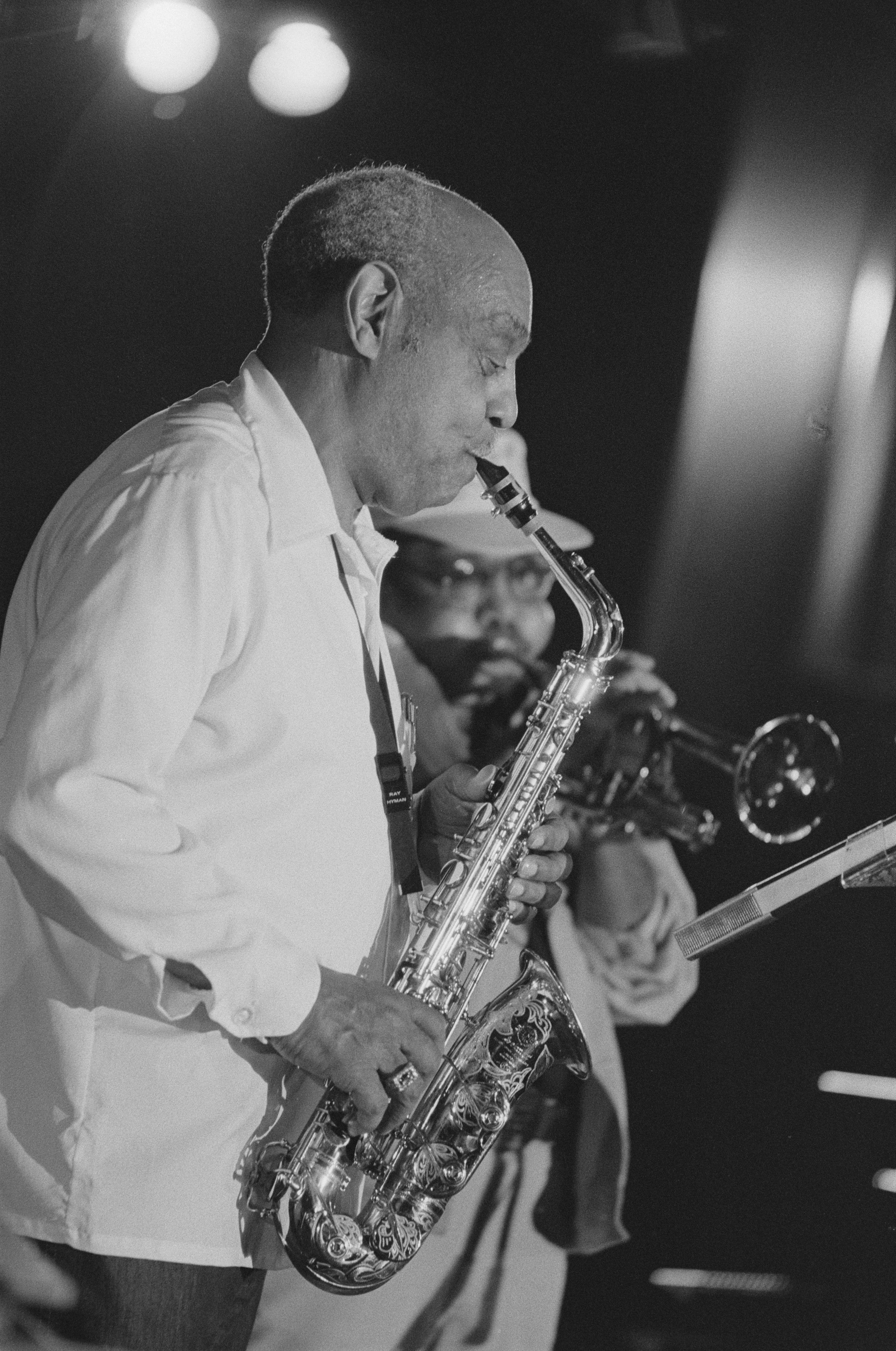 Benny Carter at North Sea Jazz Festival The Hague (the Netherlands), 14 July 1985